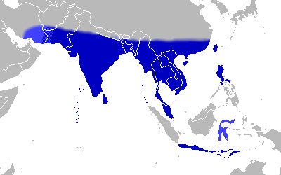 Distribtion map of Blue Tiger (Tirumala limniace) Light blue marks the region where Tirumala limniace occurs only temporarily or very seldom (Sulawesi).